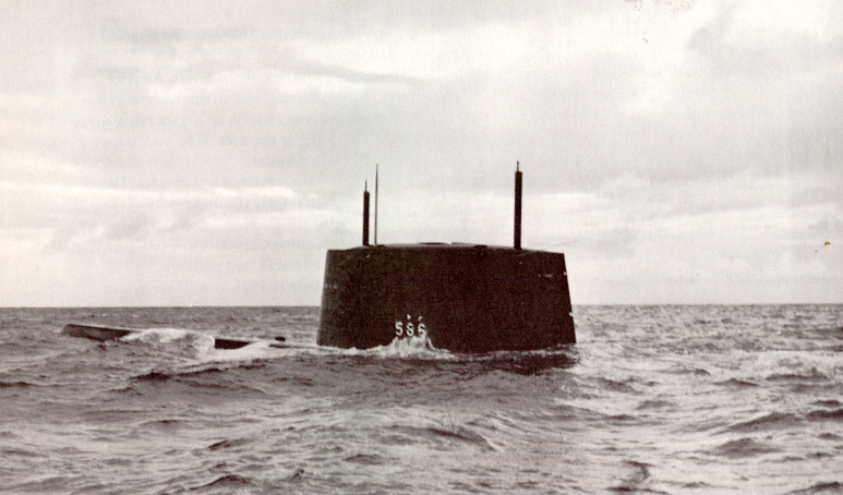 USS Triton broaching off Cadiz, Spain - 2 May 1960